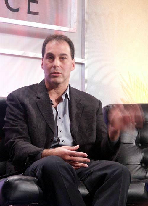 Dan Rosensweig, COO of Yahoo!